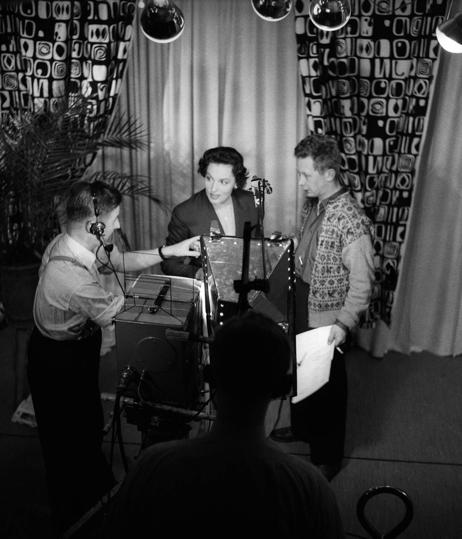 Photograph of the television studio of Radioinsinööriseura in Helsinki, Albertinkatu, when the first TV broadcast from there was prepared. The cameraman Eero Lappalainen is explaining technical details to the actors Lasse Pöysti and Helena Vinkka.